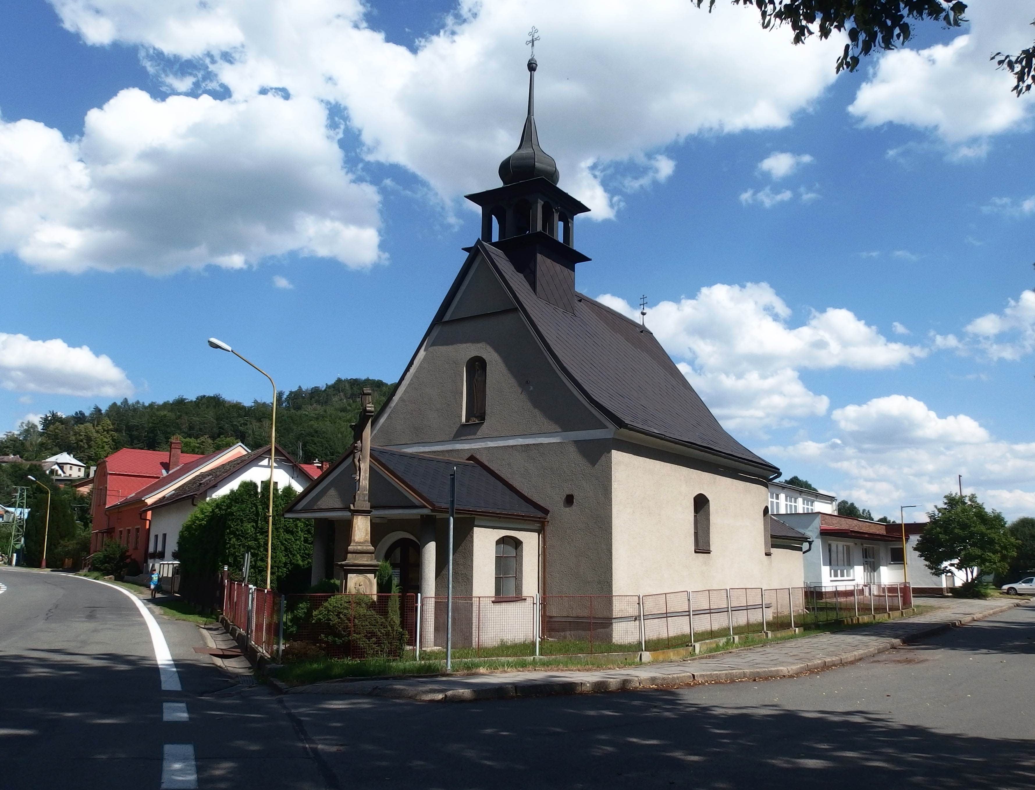 Bohutín , Šumperk District, Czechia.